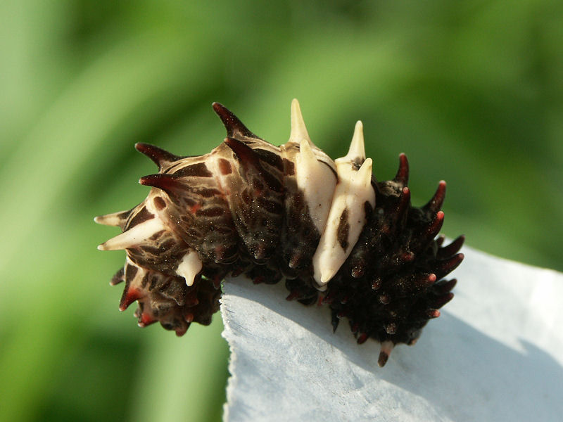 larba